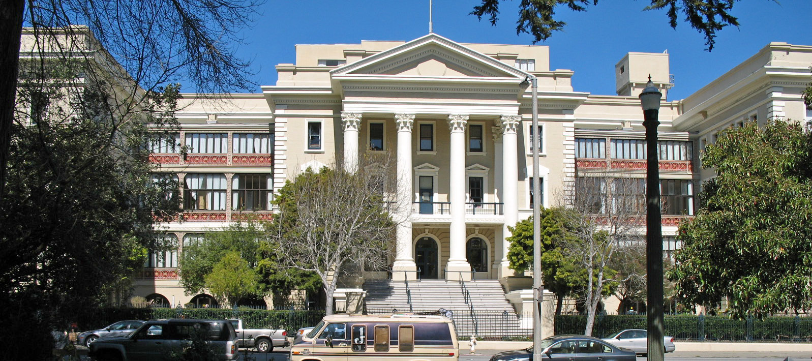 Southern Pacific Company Hospital, 1400 Fell St, San Francisco, California. On the National Register of Historic Places, a Contributing property of the NRHP Southern Pacific Hospital Historic District. Photographed from Golden Gate Park panhandle between Baker and Lyon Sts. near the southwest corner of Baker and Fell Sts. This building is now senior housing (Mercy Terrace) with its main entrance around the corner at 333 Baker St.